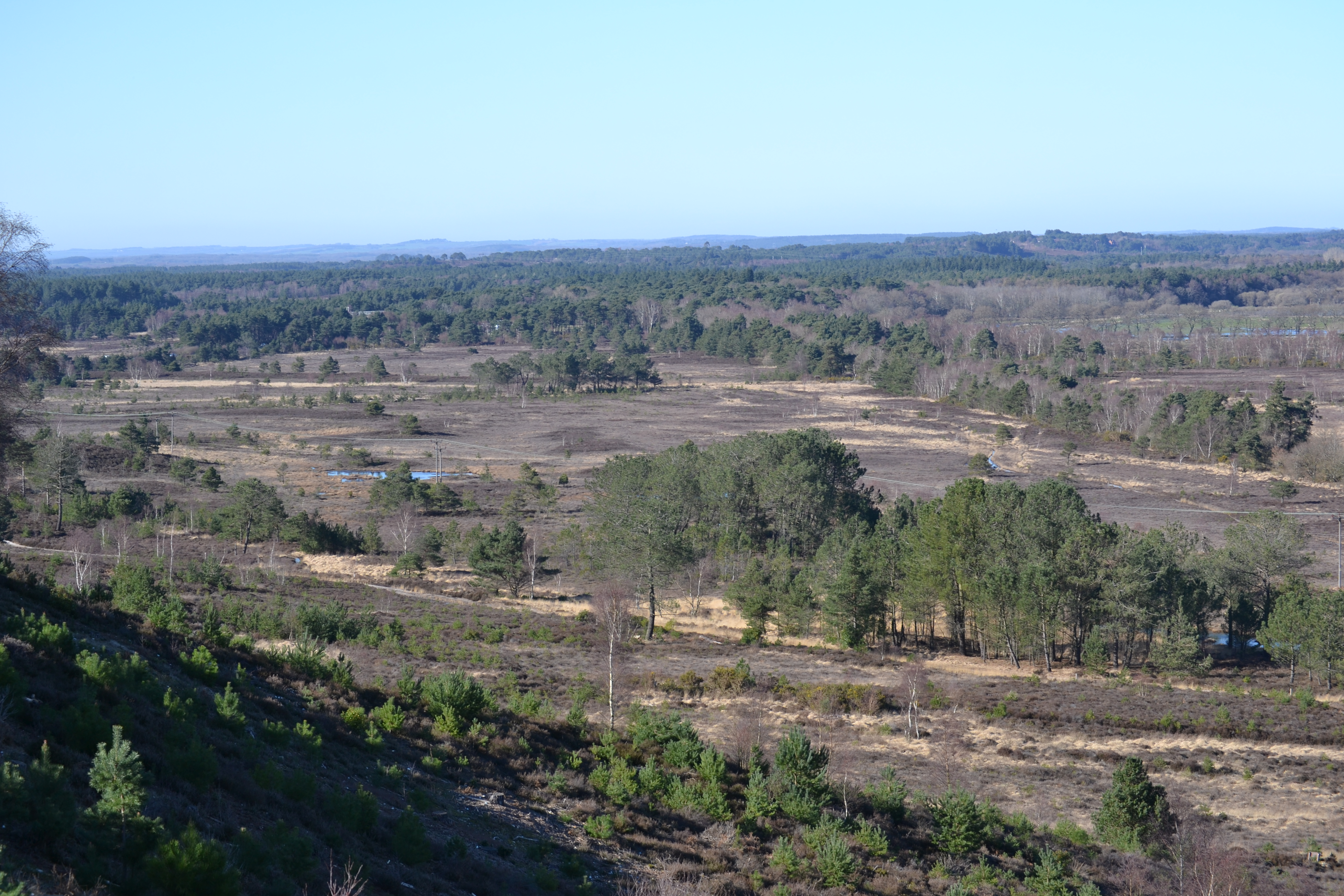 View over the Eastern Slopes and Town Common from St Catherine's Hill in Dorset.